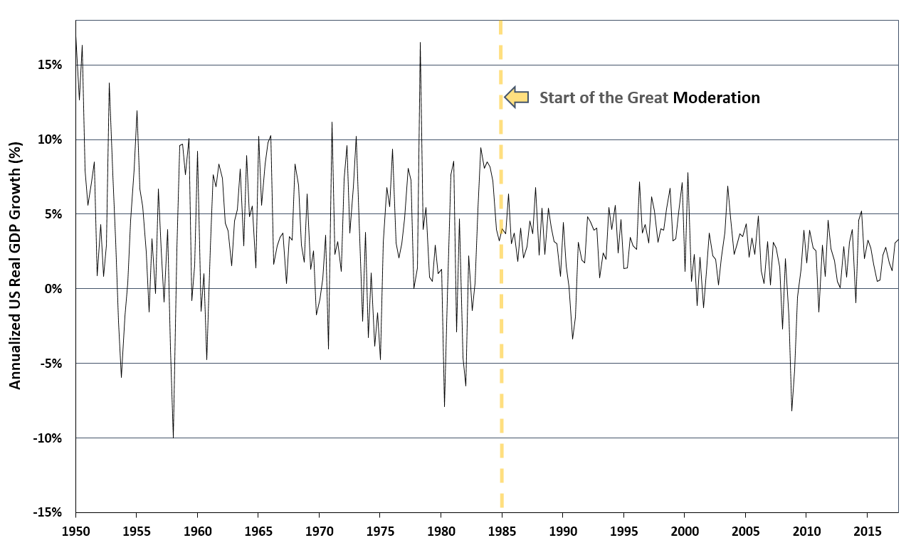 US Annualized Real GDP Growth between 1950 and 2016, showing the start of the Great Moderation. US Real GDP data series obtained from the Federal Reserve Economic Data (FRED) database provided by Economic Research at the St. Louis Fed.[1]